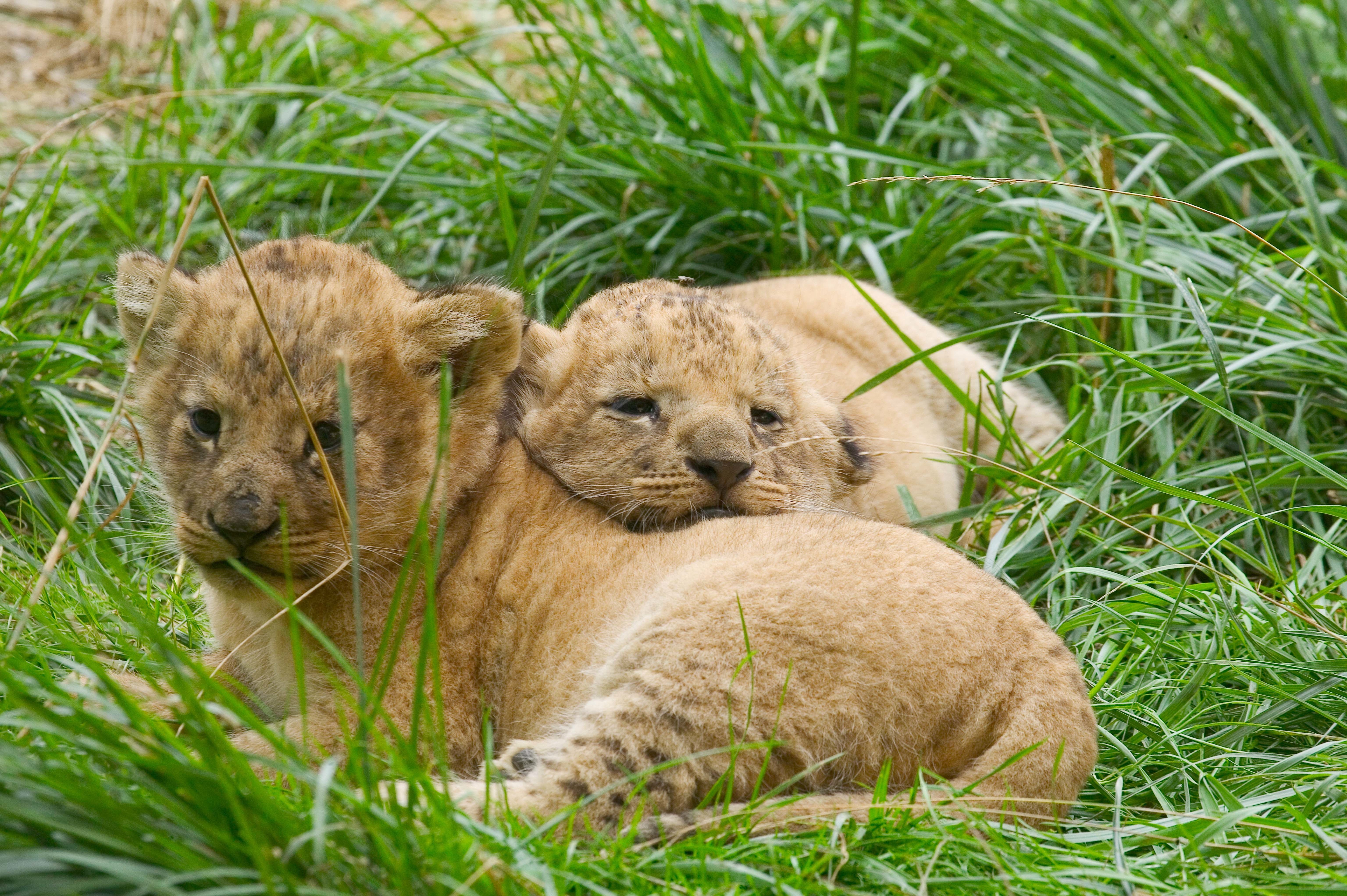 lion cubs Amneville Zoo